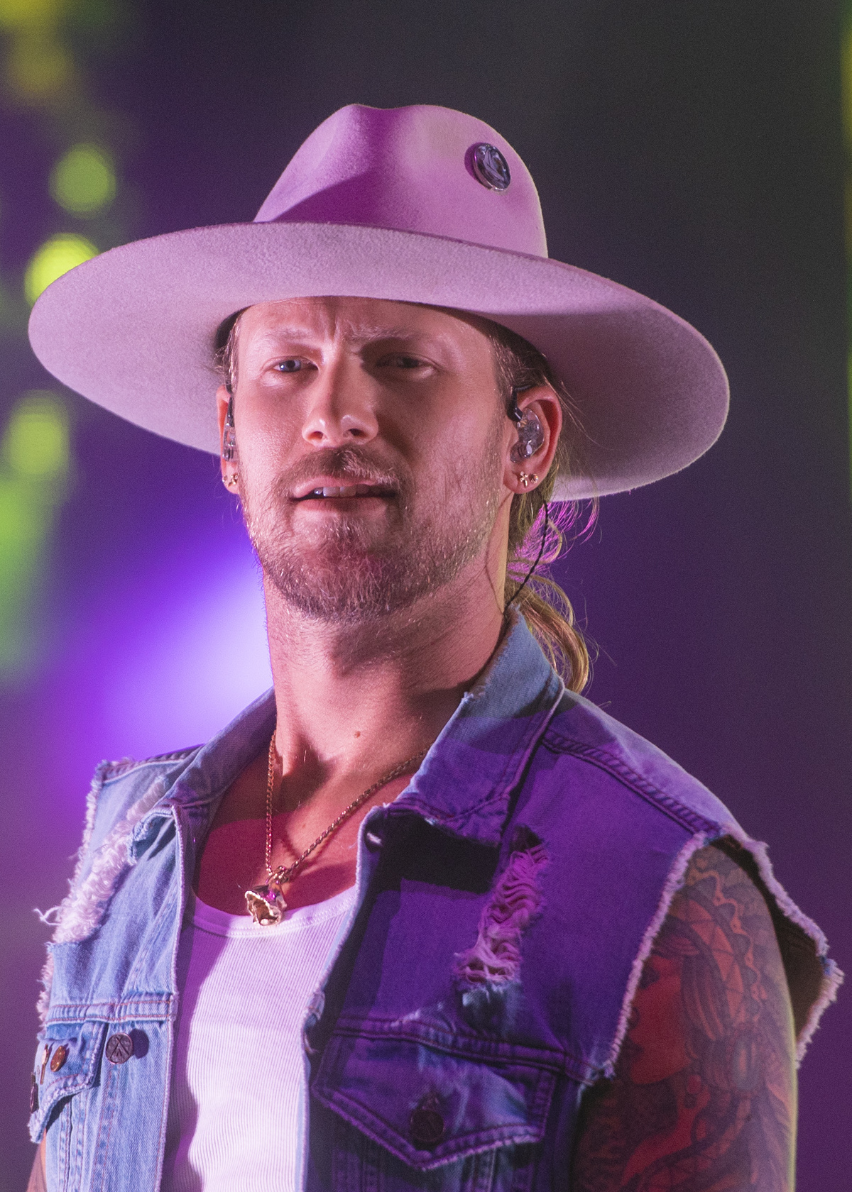 Florida Georgia Line performs for service members attending in person and around the globe through streaming video at the World's Biggest USO Tour in Washington, D.C., Sept. 13, 2018. Performances from Florida Georgia Line, actor-comedian Adam Devine and Celebrity Chef Robert Irvine were live-streamed to service members in at 88 USO locations across the United States and around the world. (DoD Photo by Navy Petty Officer 1st Class Dominique A. Pineiro)